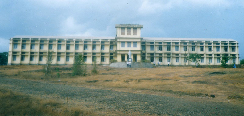 Tagore Vidyaniketan Higher Secondary School, Taliparamba